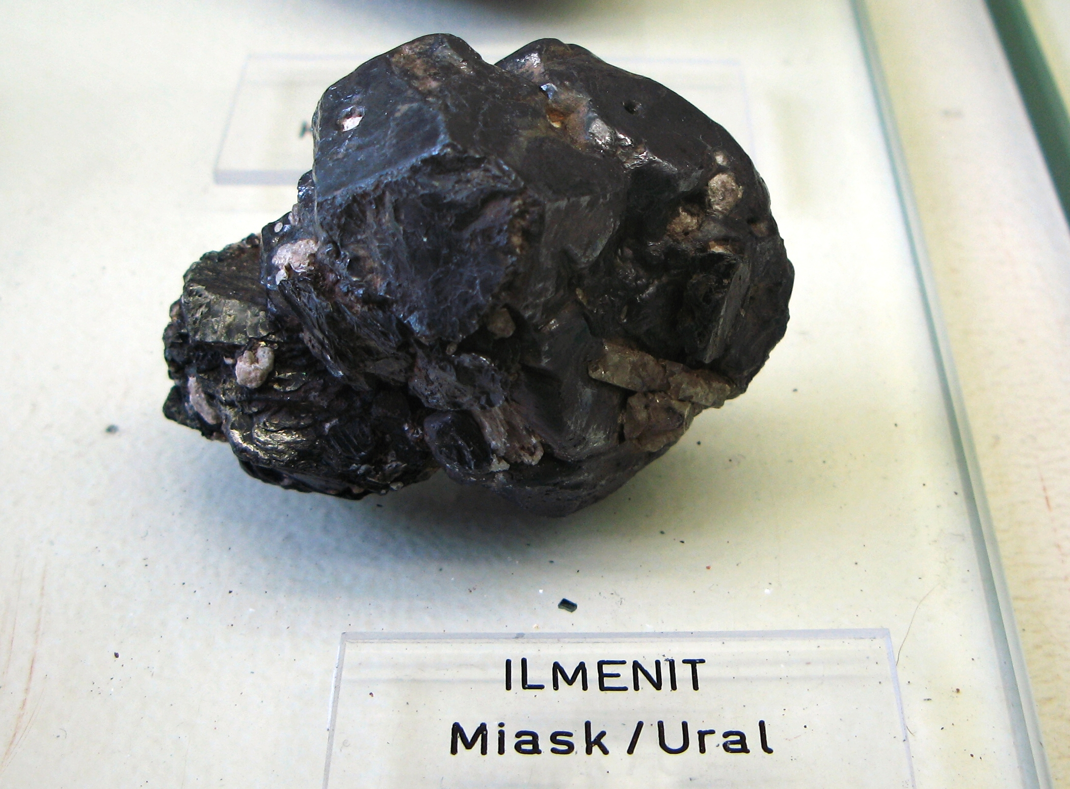 Ilmenite - Locality: Miask (Miass), Ural - Exposed in the Mineralogical Museum, Bonn, Germany